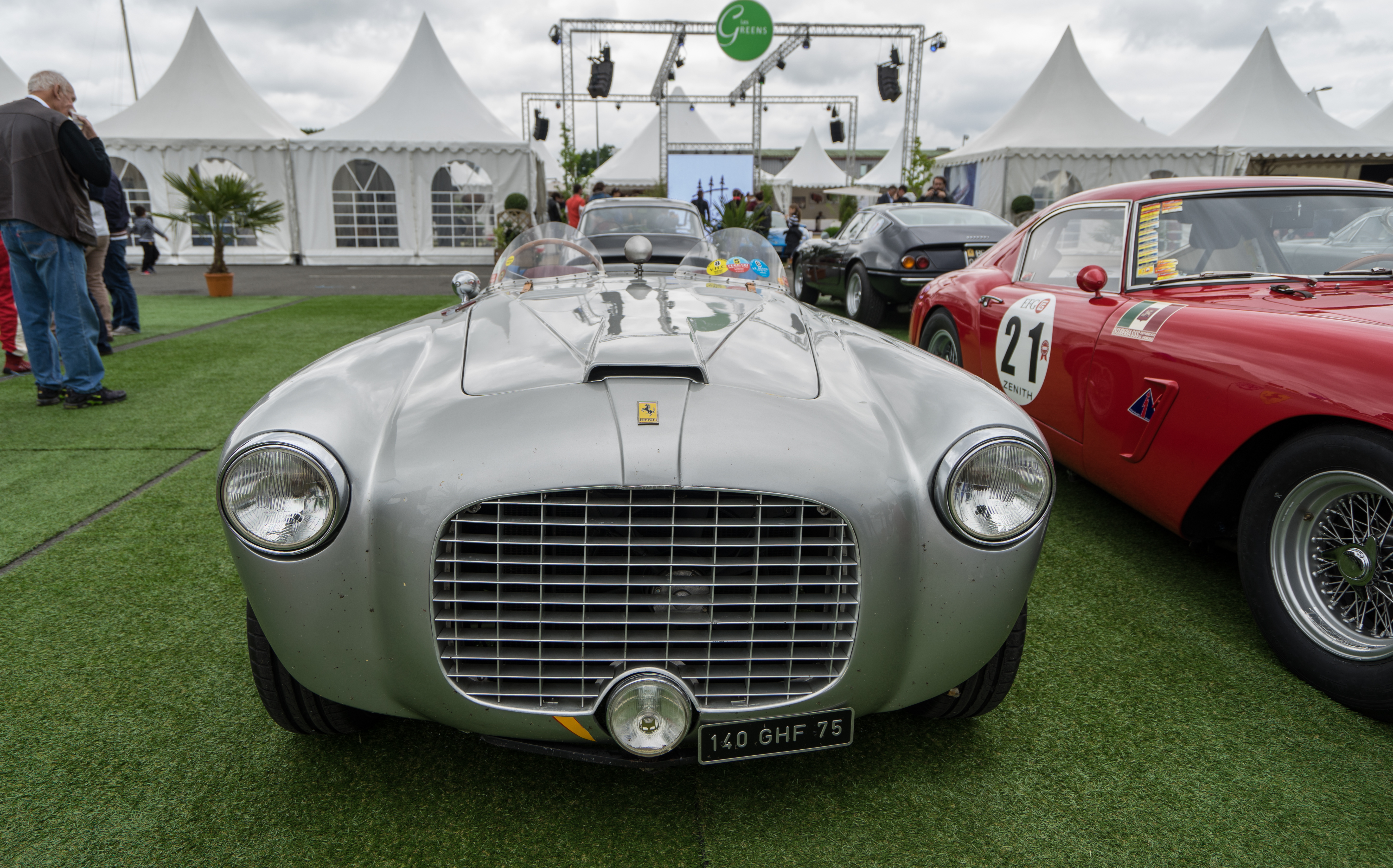 This 1951 Ferrari 212 Export Spider with Coachwork by Carrozzeria Motto did not sell sold at a high bid of $1,974,700 USD at Bonhams Ferrari et les Prestigieuses Italiennes auction held December 20th in Gstaad, Switzerland. Its pre-sale estimate was $2,315,000 – $3,145,000 USD.